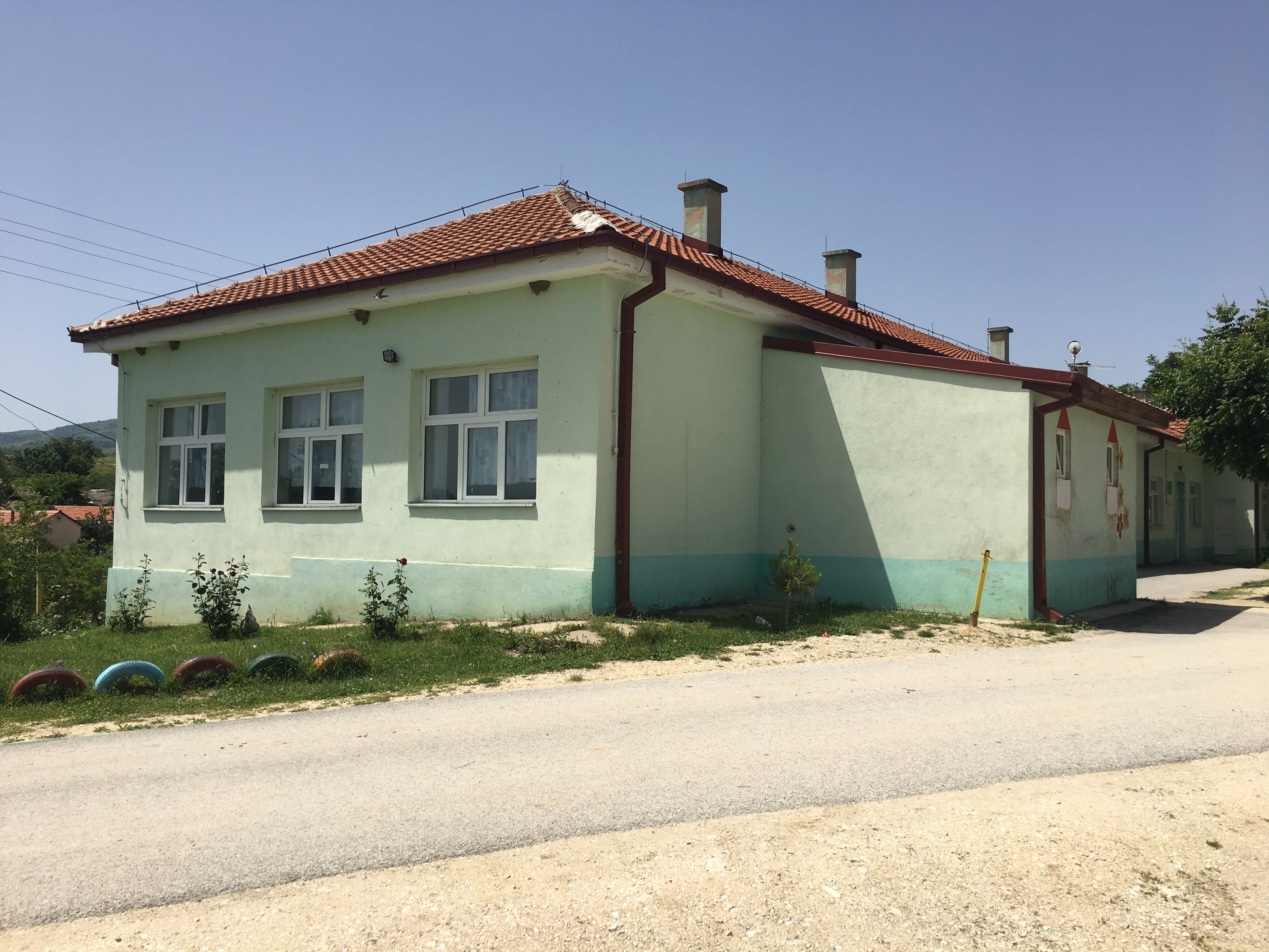 Kočo Racin Primary School in the village of Ivanjevci